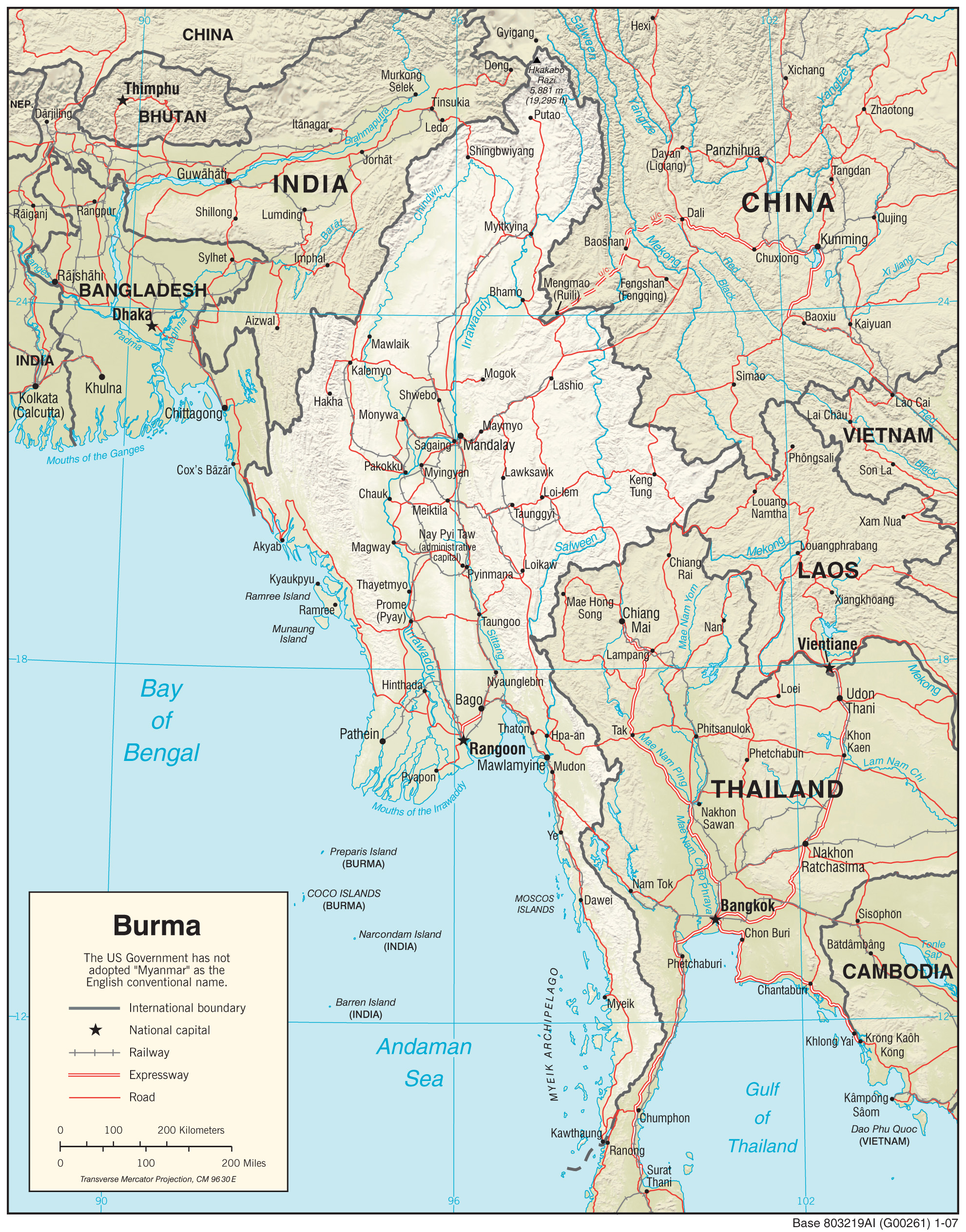 Topographic map of Myanmar (shaded relief), 2001.